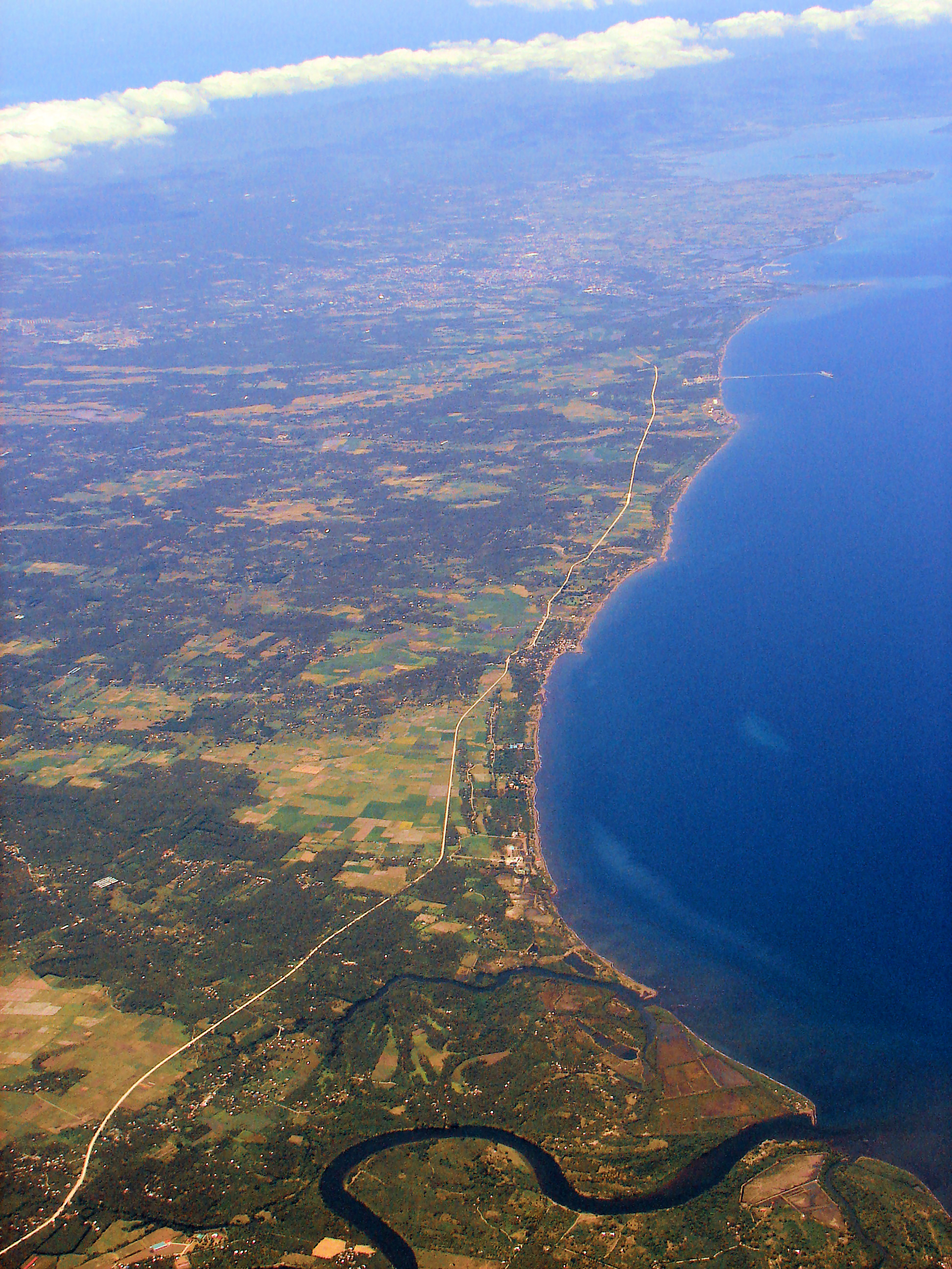 Coast of Sariaya, Quezon, Philippines, with Lucena City in background